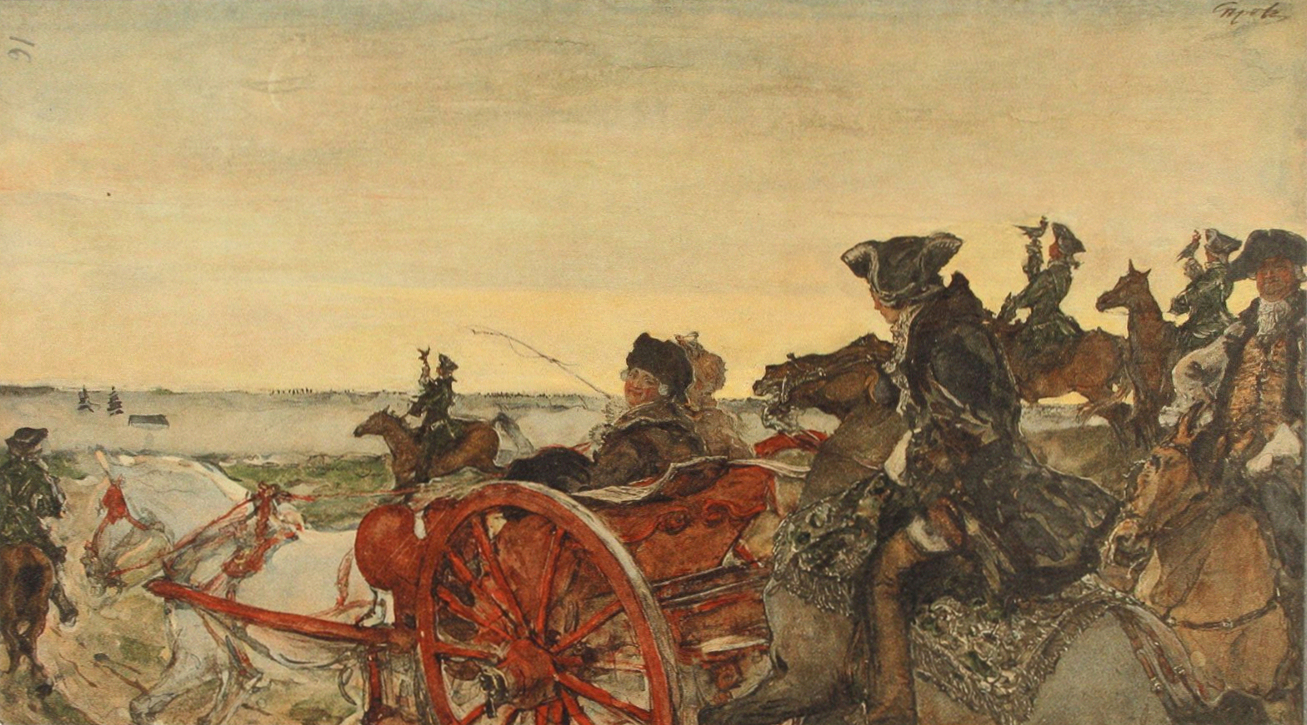 Catherine II Setting out to Hunt with Falcons